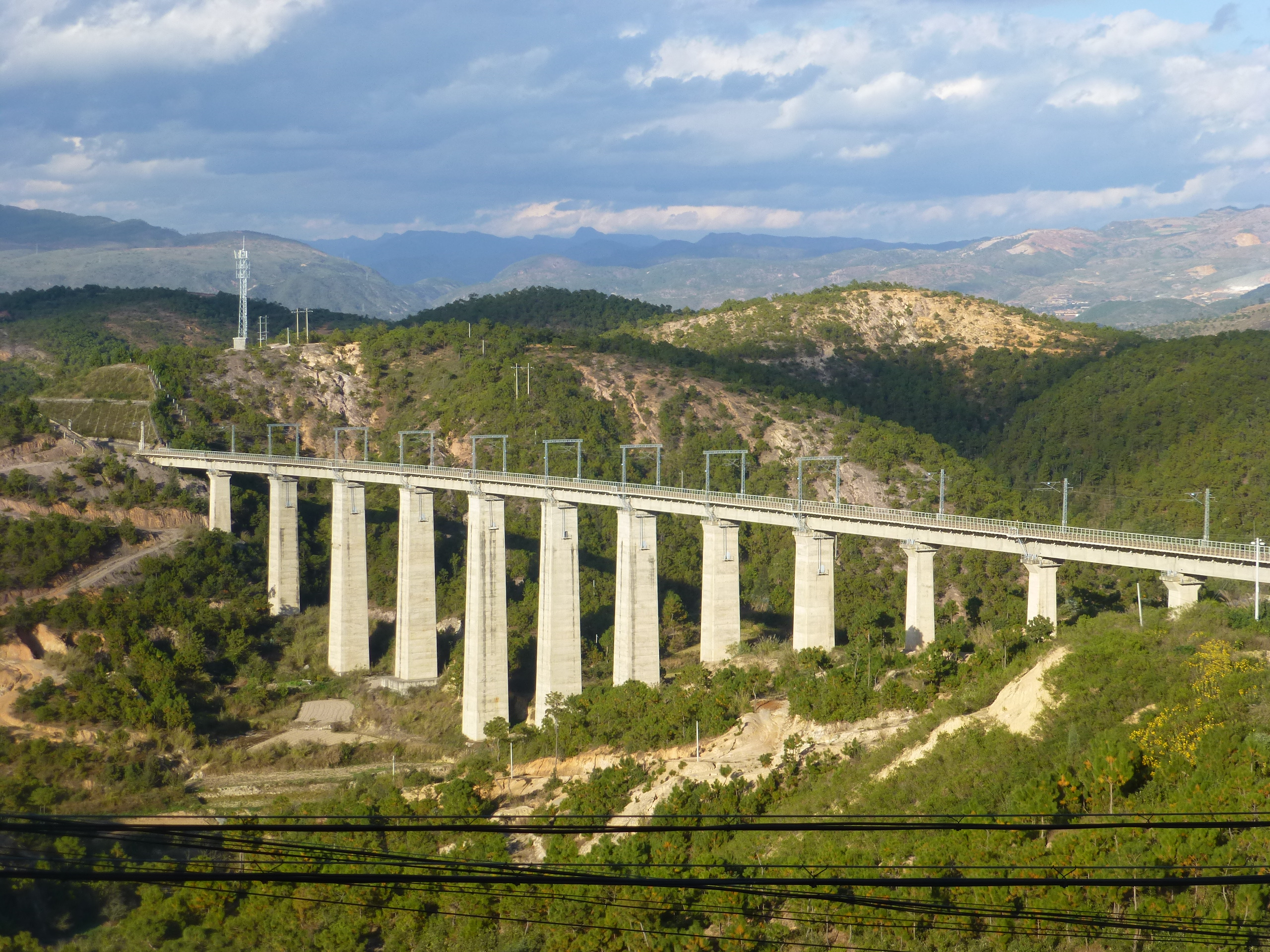 On Hwy S214 in the northerrn near Xiangmuqiao Village, between Xiangmuqiao Village and Yema Village. The Yuxi-Mengzi Railway is a bit east of the highway, and often can be seen, as it appears from one tunnel and then disappears in the next one.